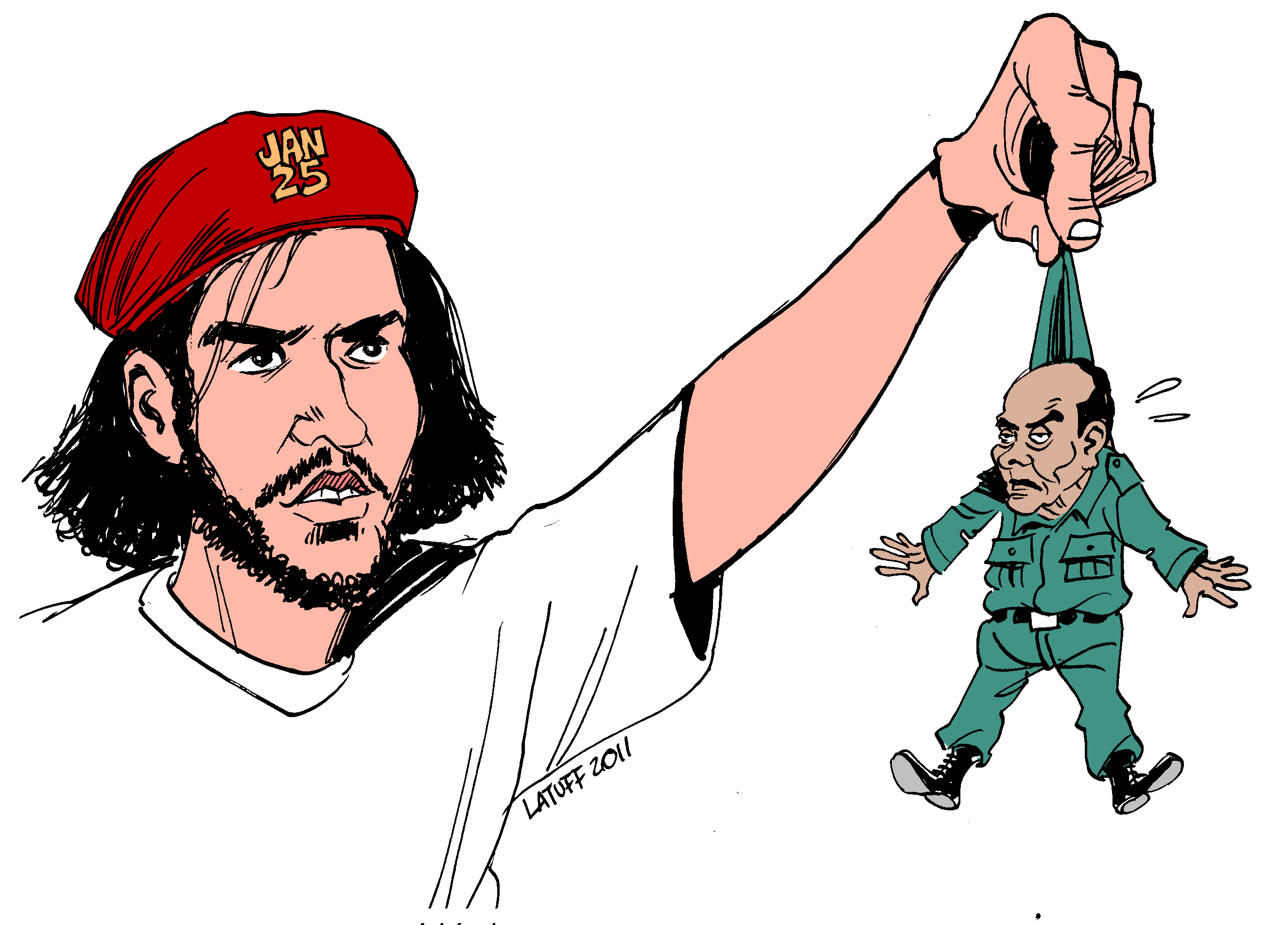 Tribute to Mina Daniels, killed by Egyptian forces in Oct 9, 2011